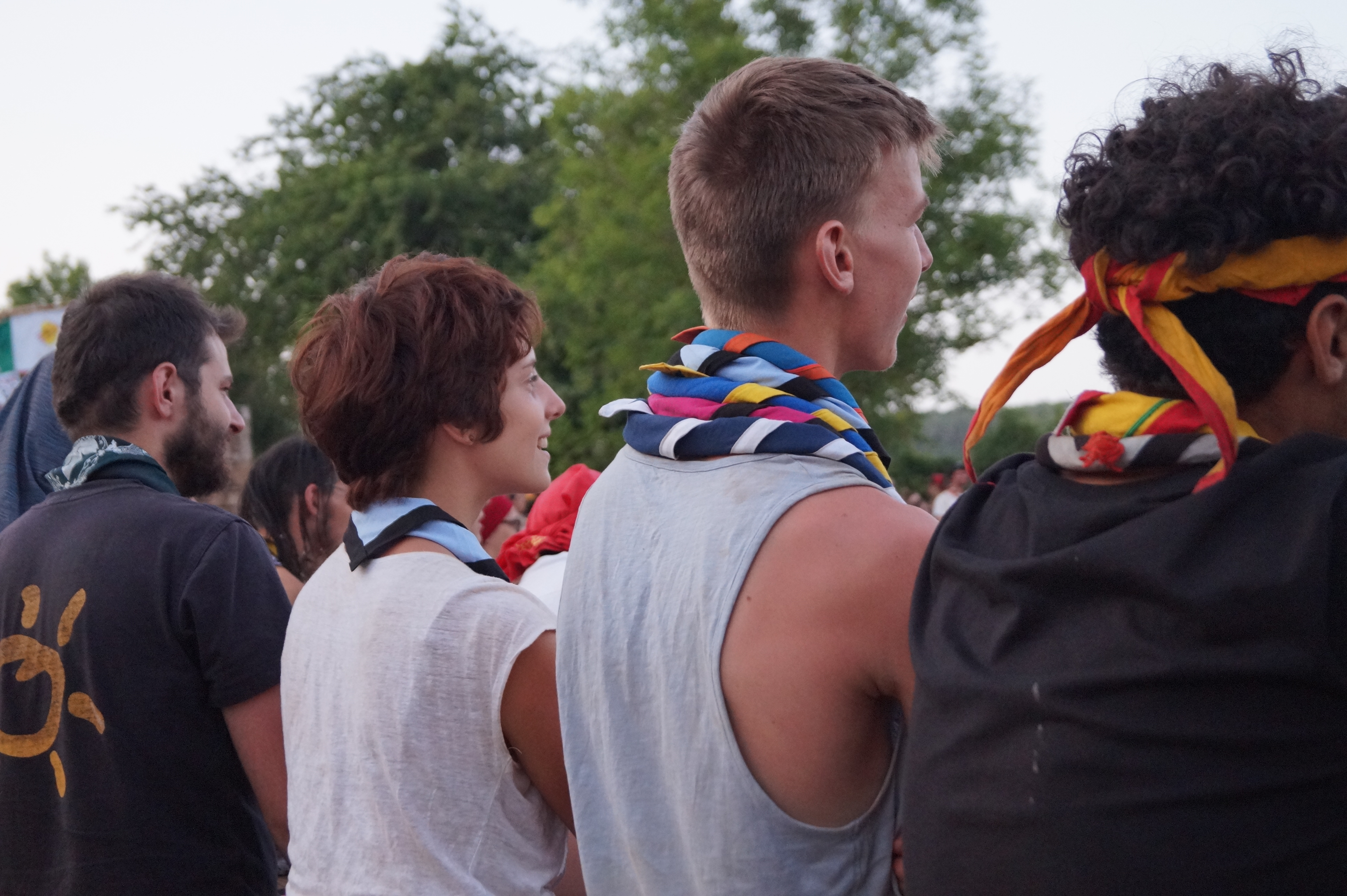 Four scouts leaders from Eclaireuses Eclaireurs de France, wearing neckerchiefs